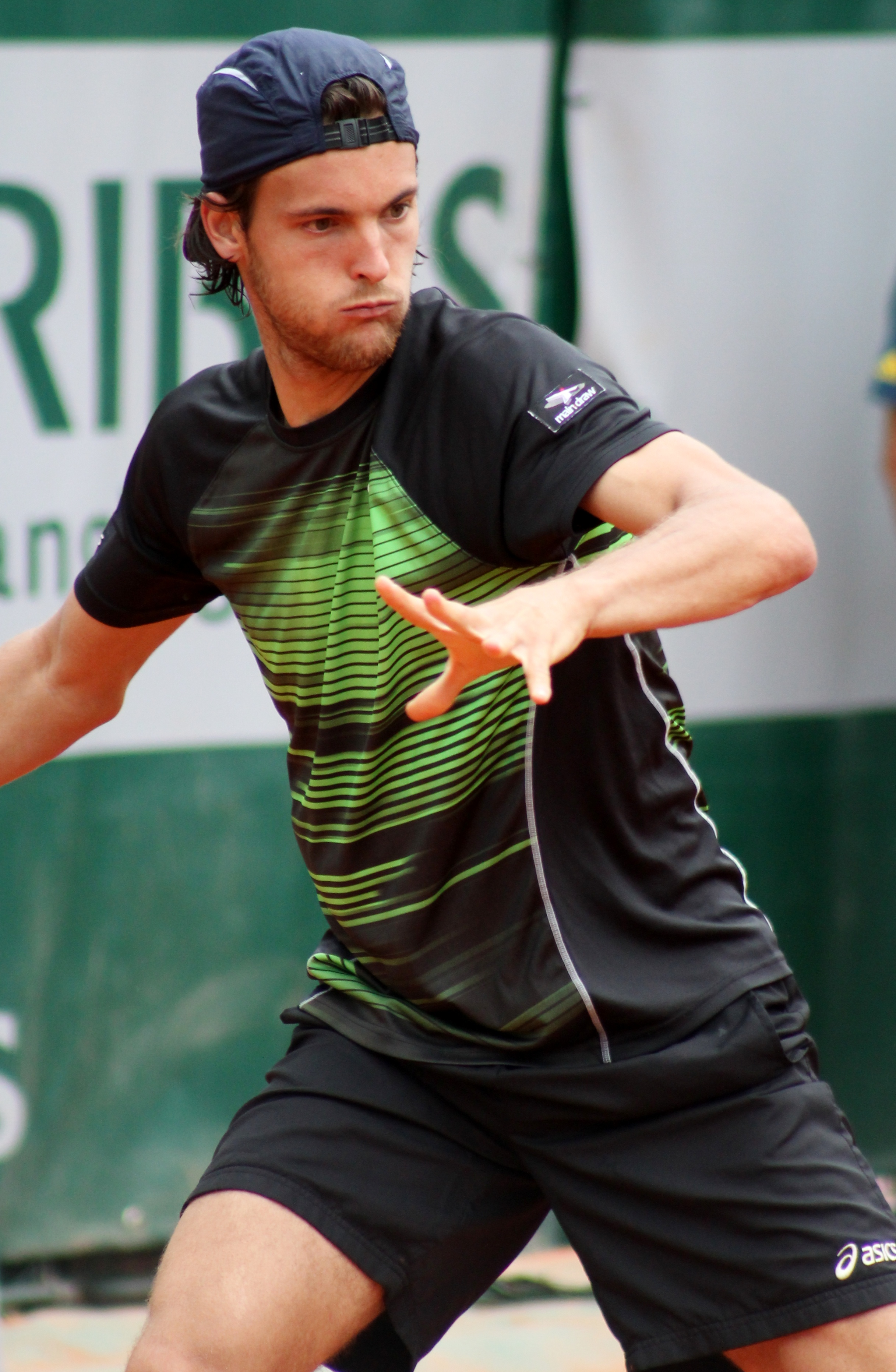 Joao Sousa playing at Roland Garros 2013